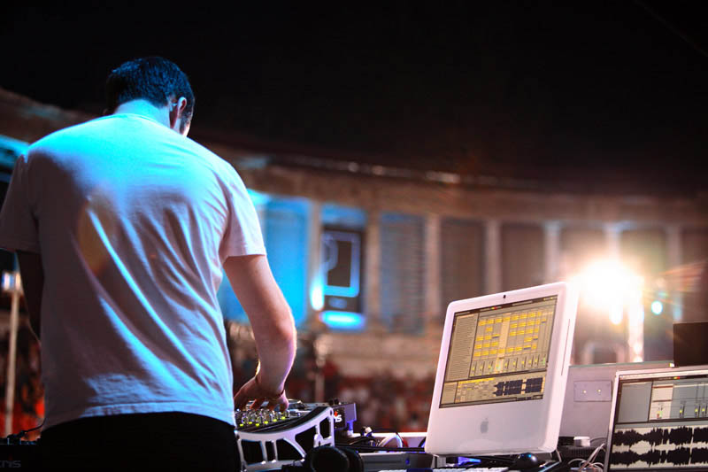 DJ Sasha at Arenele Romane, Bucharest (2006) (rear view)